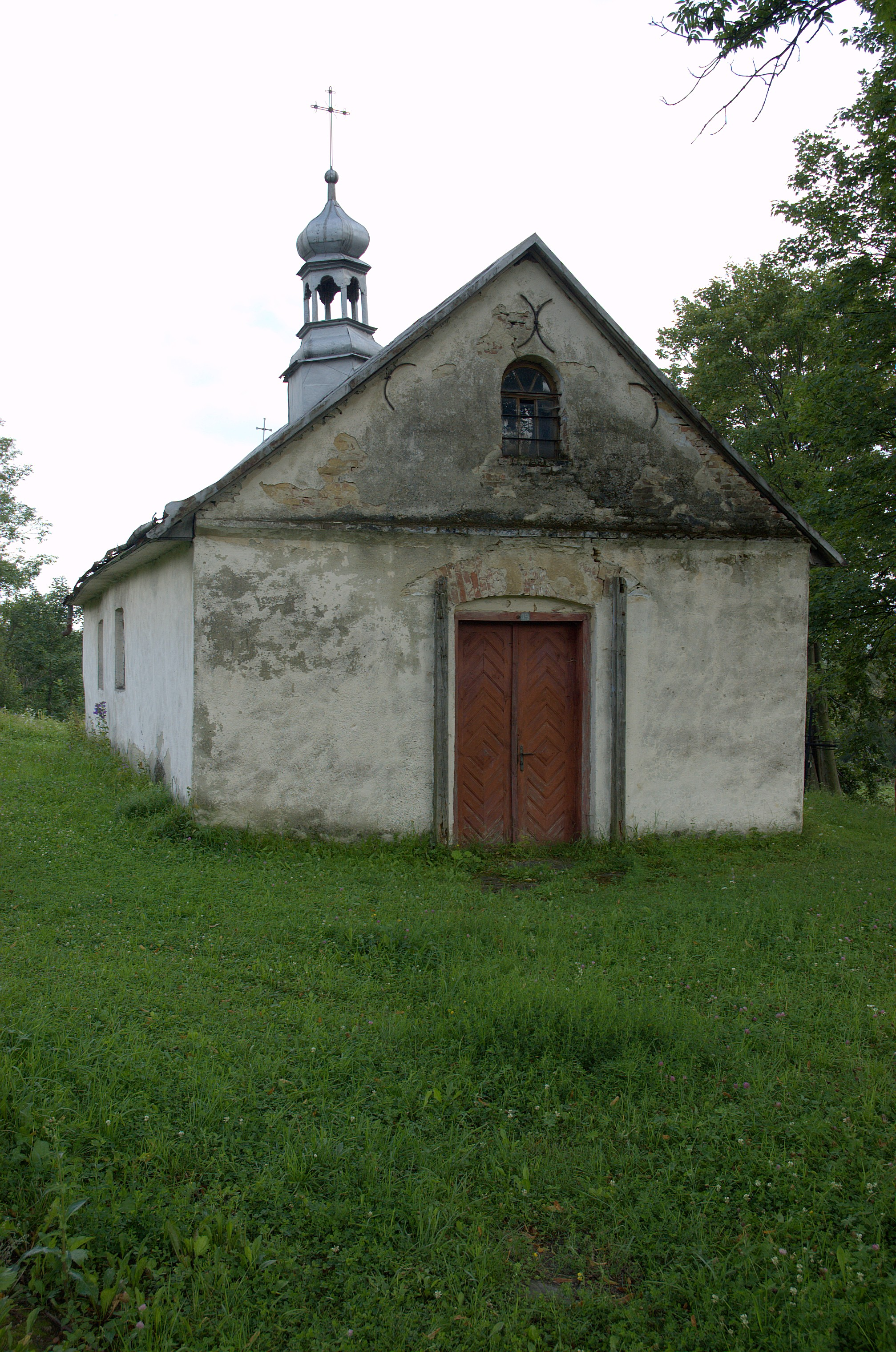 Greek Catholic church in Kopysno